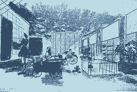 Architects of the Pruitt-Igoe housing development envisioned laundry and communal rooms in the corridors of the buildings.